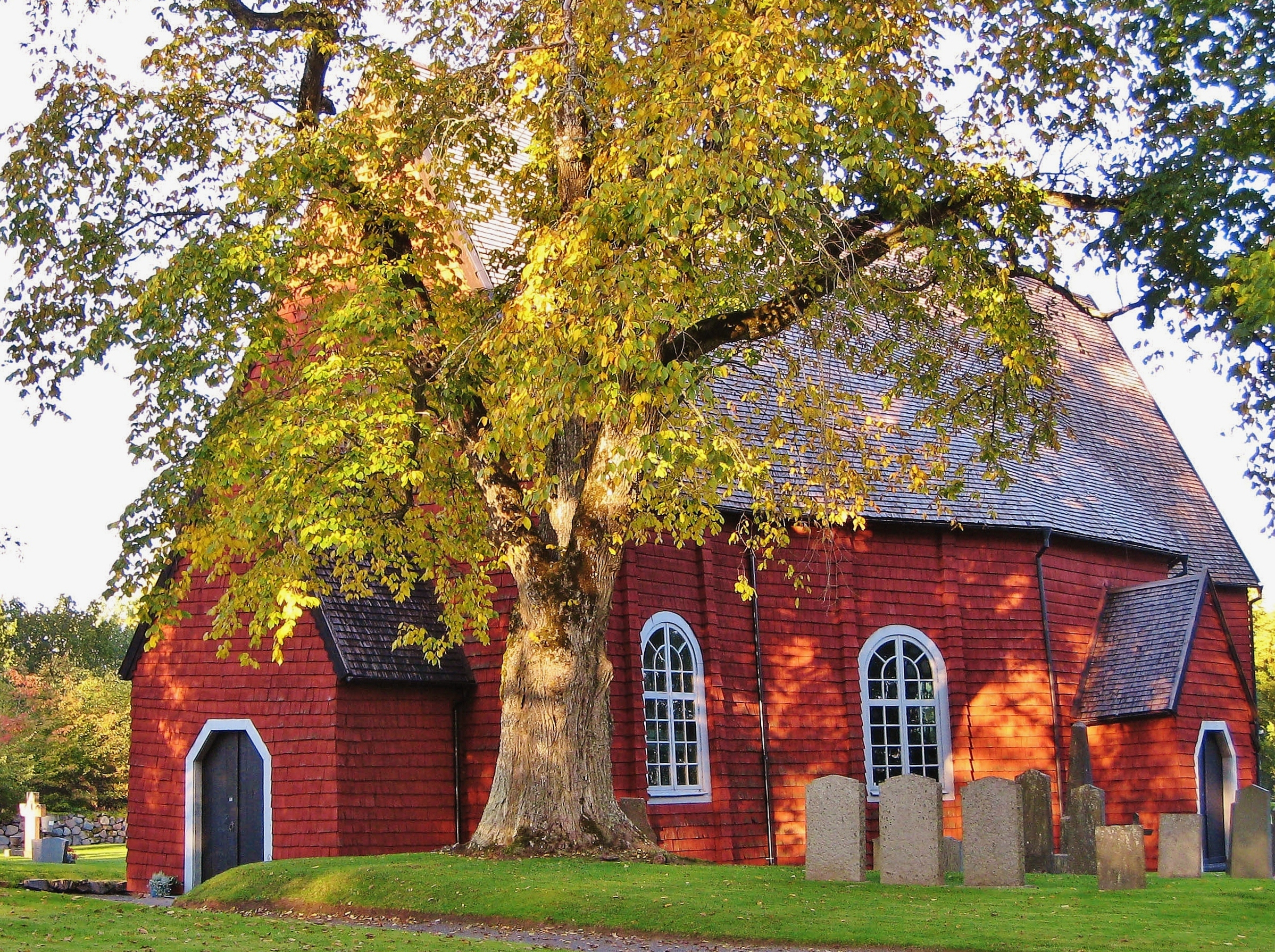 Näshults Church.